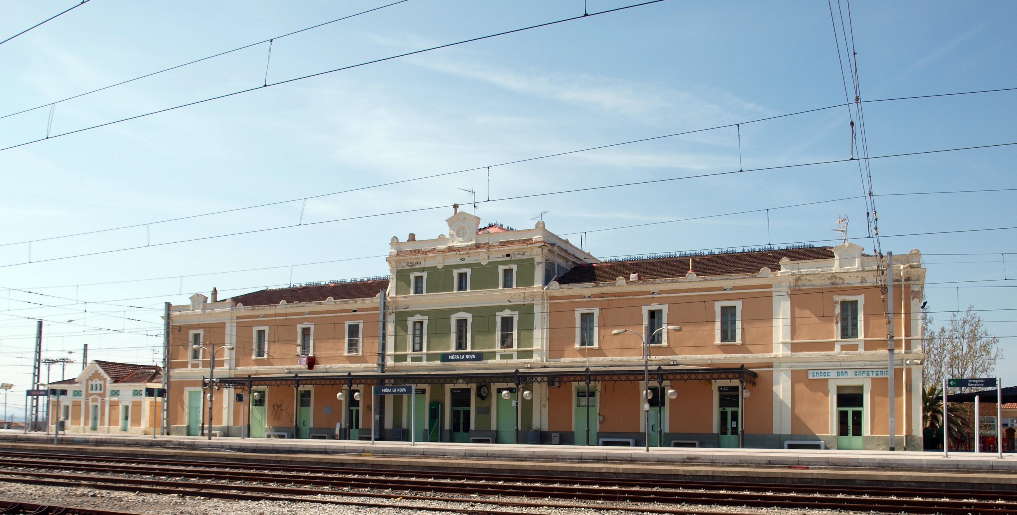 Móra la Nova train station